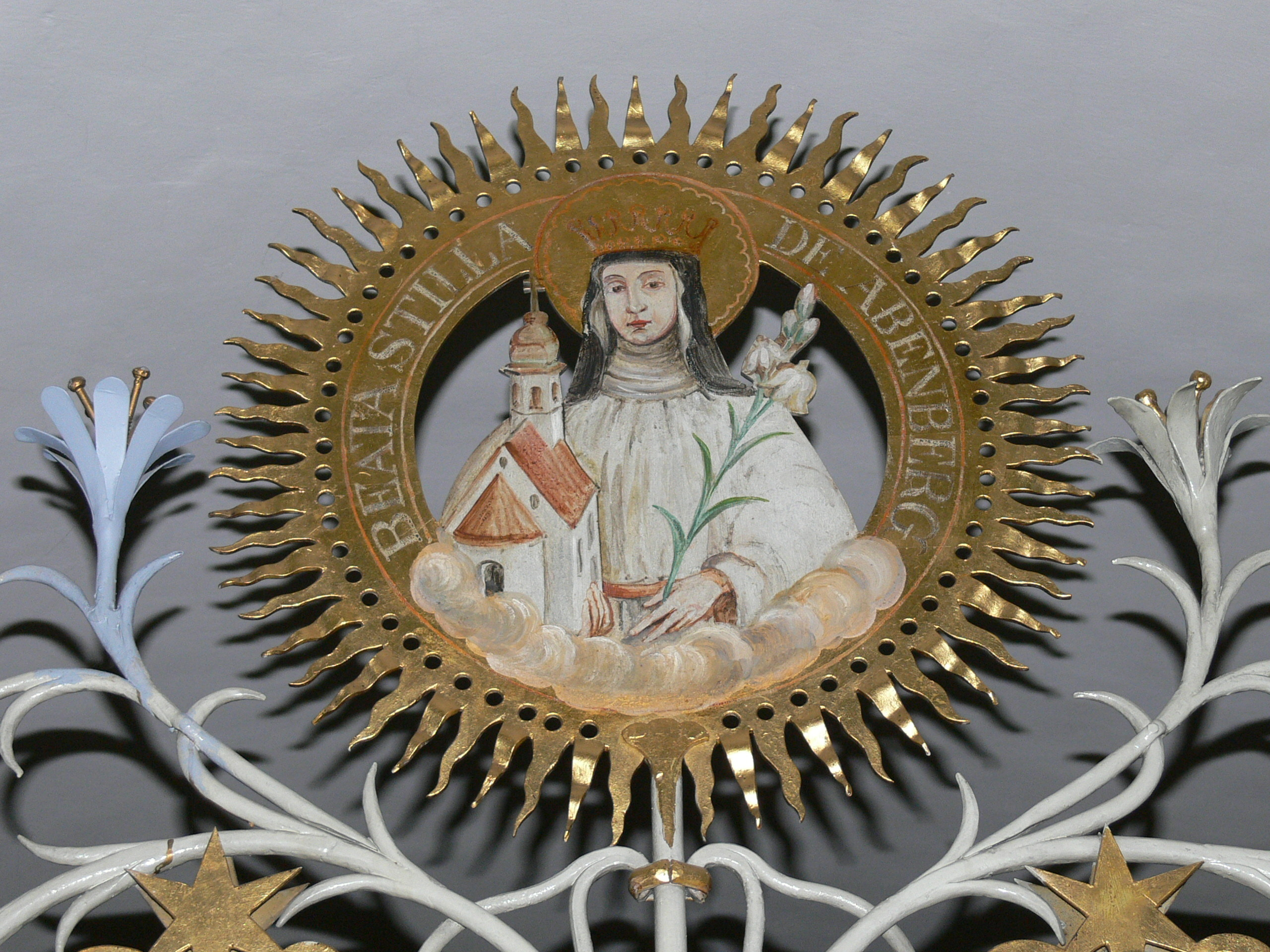 Saint Peter church - Marienberg monastery in Abenberg. Beatified Stilla at the choir bars ( 18th century )